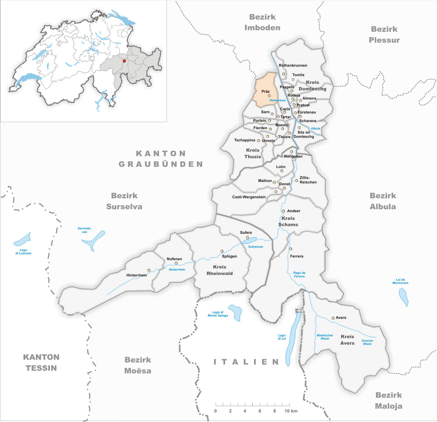 Municipality Präz